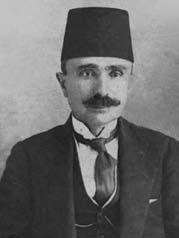 Kınacızade Şakir Bey